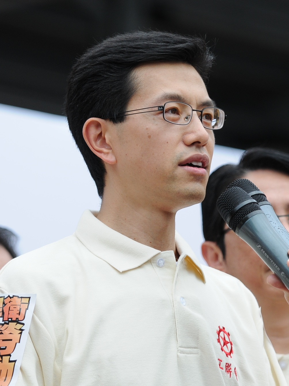 Ng Chau-pei, Chairman of the Hong Kong Federation of Trade Unions